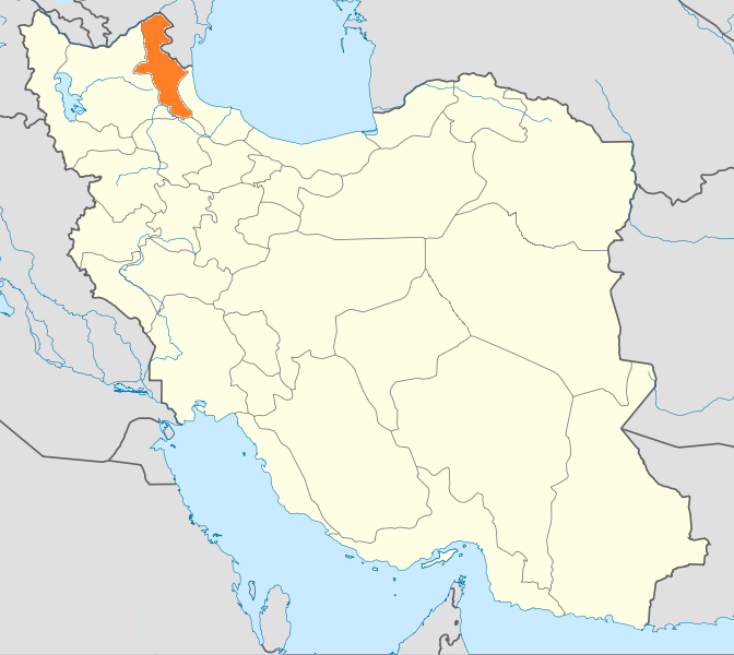 Locator map of Iran